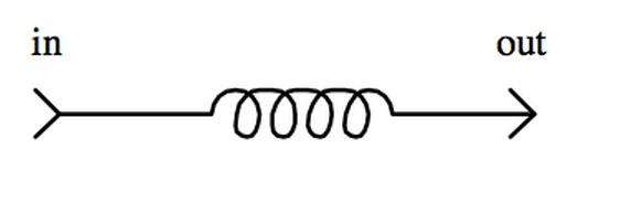 DCpass_Filter